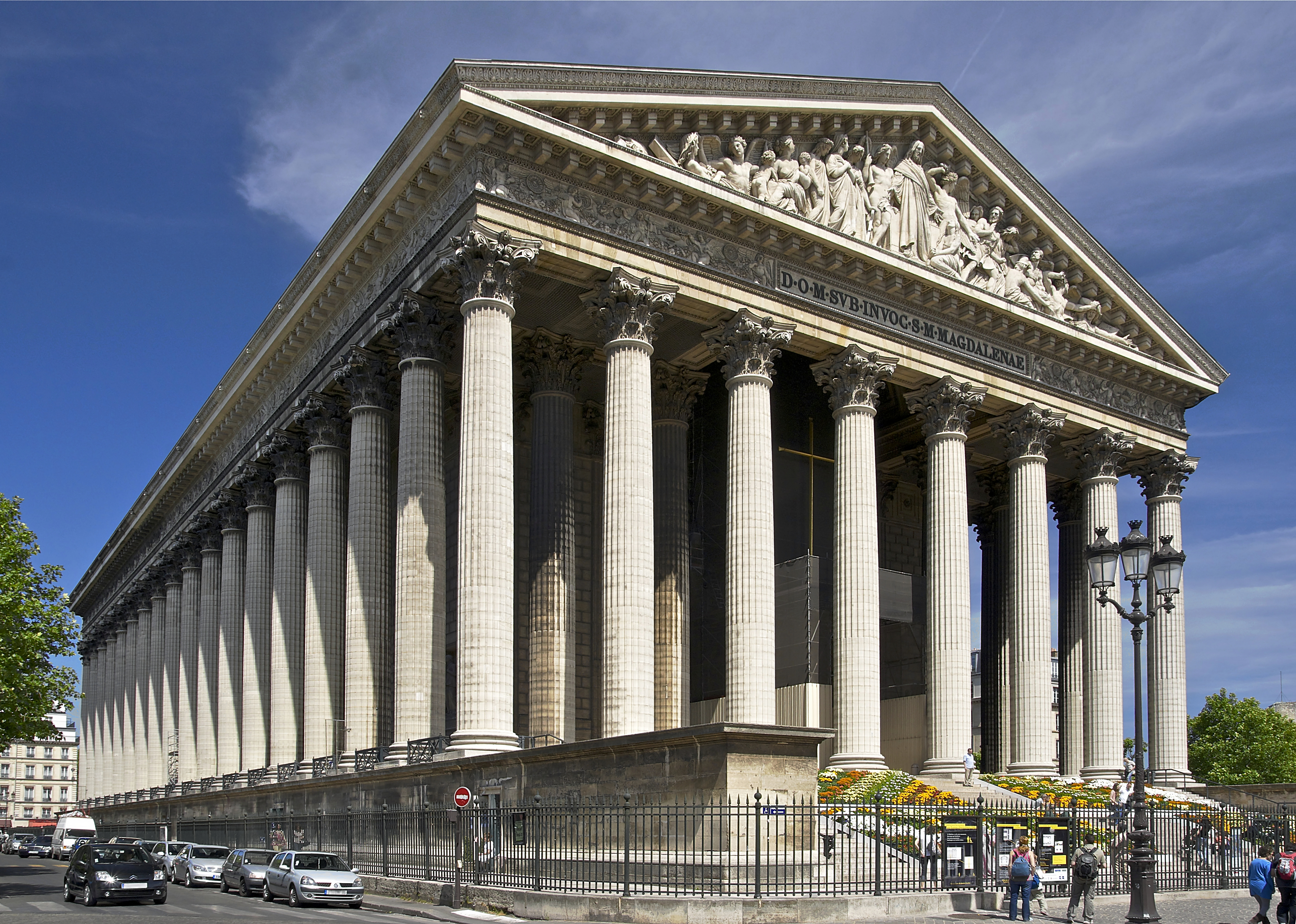 The Madeleine Church (Église de la Madeleine), as seen from the Madeleine plazza, in Paris (France).